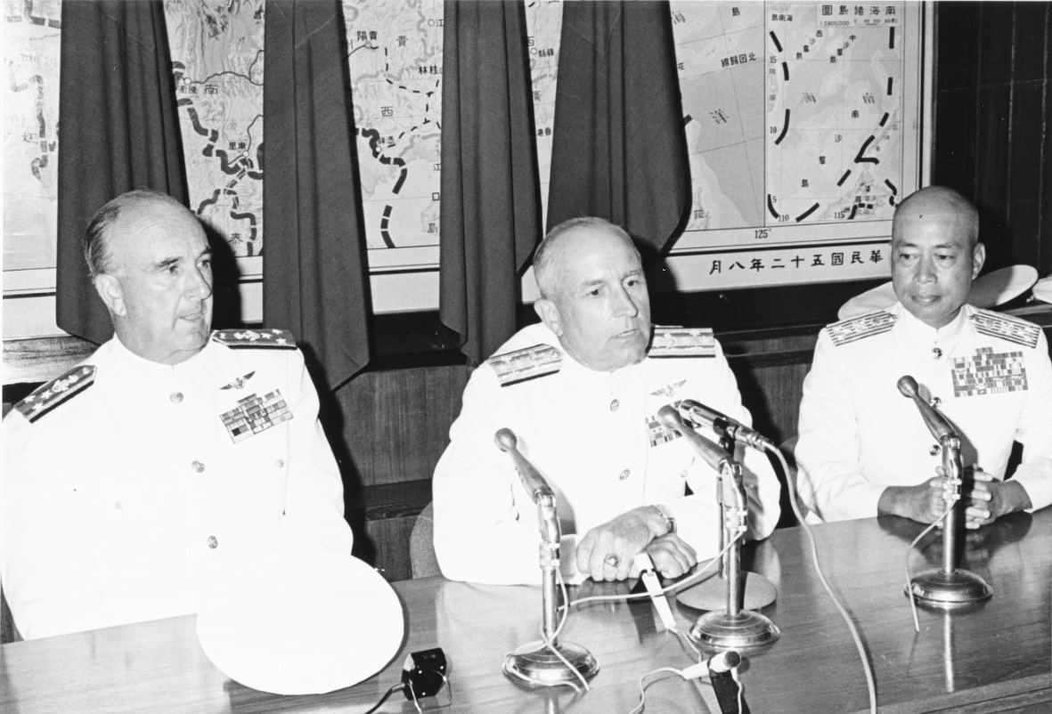 Admiral Thomas H. Moorer, USN, Chief of Naval Operations (center), Faced a group of newsmen and answered questions ranging from Vietnam to military assistance to the Republic of China, during a press conference held at Sung Shan Military Airport, Taipei, following his arrival on a visit to Taiwan, 7 July 1967. Flanking Adm. Moorer are (at right) Admiral Feng Chi-chung, Chinese Navy commander-in-chief, and (at left) Vice Admiral William E. Gentner, Jr., Commander of the U.S. Taiwan Defense Command. 中文（台灣）: 美國海軍作戰部長穆勒上將（中央）於1967年7月7日訪問台灣，隨後在台北松山機場舉辦的記者會上向記者團回答了越南、軍事援助中華民國等問題。穆勒上將兩側分別為中華民國海軍總司令馮啟聰上將（右）、美軍協防台灣司令部司令耿特納中將（左）。